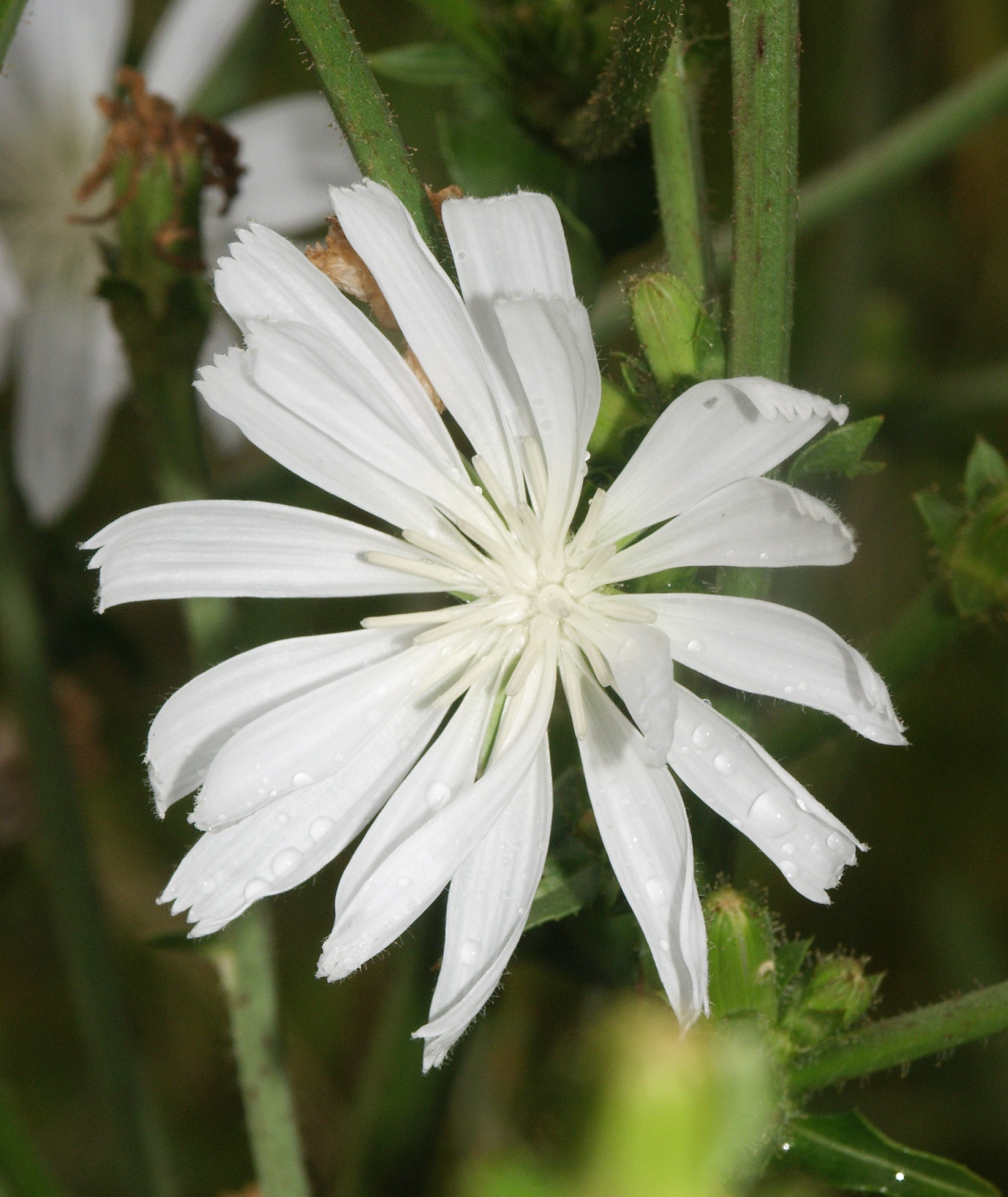 Cichorium intybus alba